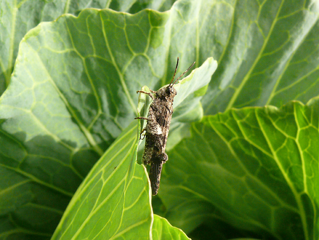 Male Trilophidia conturbata photographed near Kayaar, Senegal.